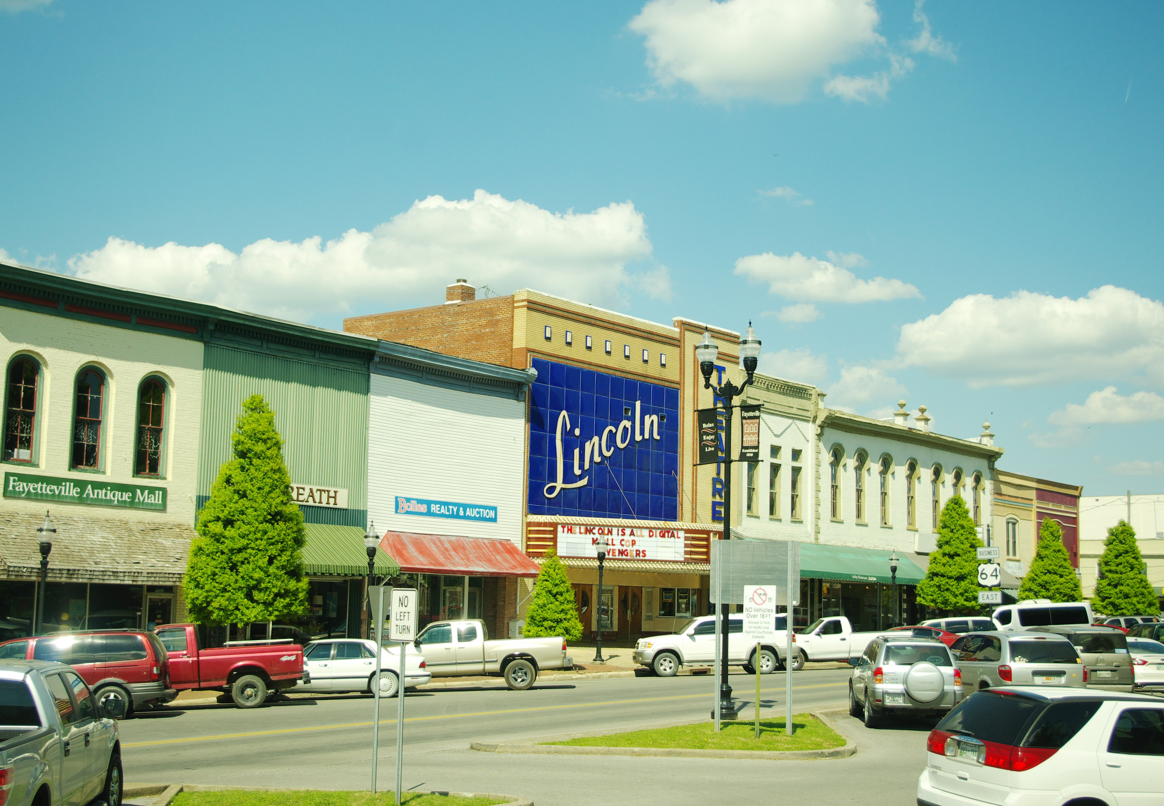 The Lincoln Theater and other buildings along the north side (College Street) of the Fayetteville Square in Fayetteville, Tennessee, United States.